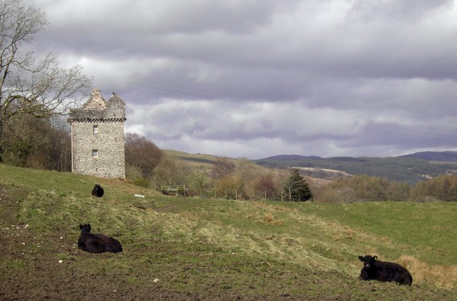 Rusco Castle Rusco Castle, or Rusko Castle, probably dates from the early 16th century. It is a simple rectangular tower, three storeys and a garret high, measuring 38 1/2' by 29' over walls 6'-8' thick. There is a ruinous two storeyed addition to the N, dating probably from the 17th century, provided with a stair-tower projecting W. This addition measures 57' by 22' over walls which nowhere exceed 3' thick. Rusco, which in early times belonged to the Carsnane family and was known as Glenskyreburn passed by marriage in the early 16th century to Sir Robert Gordon of Lochinvar. It was inhabited till about 1890. After this it became ruinous but has now been restored as a family home.